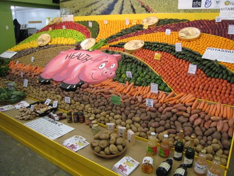 Image of fresh produce on display: Horticulture and health